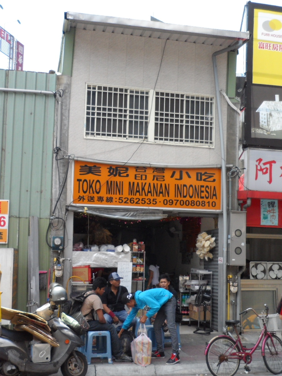 Toko Mini Makanan Indonesia, Hsinchu City.